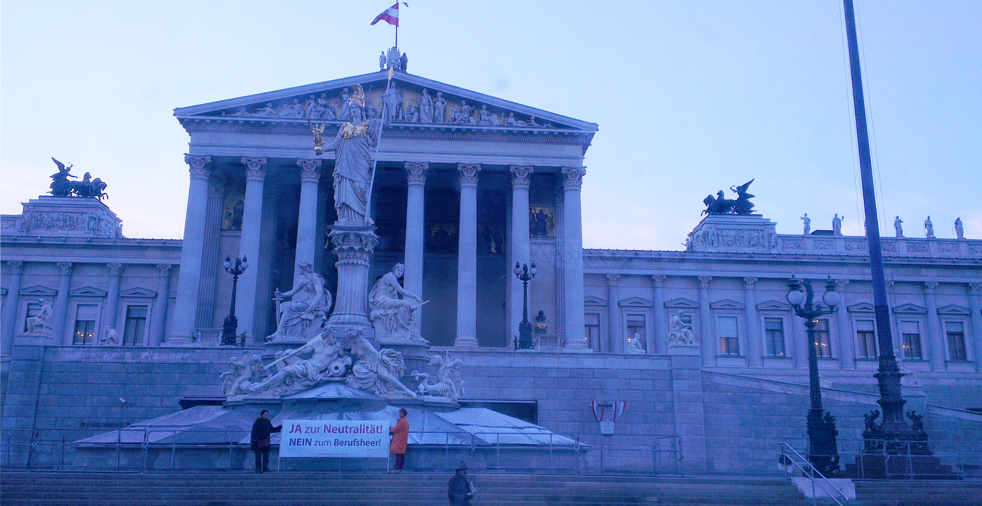 The Austrian parliament building taken at dusk. Protesters against a regular army may be seen at the forefront. Translated, the banner reads; "Yes to neutrality! No to a professional army!"